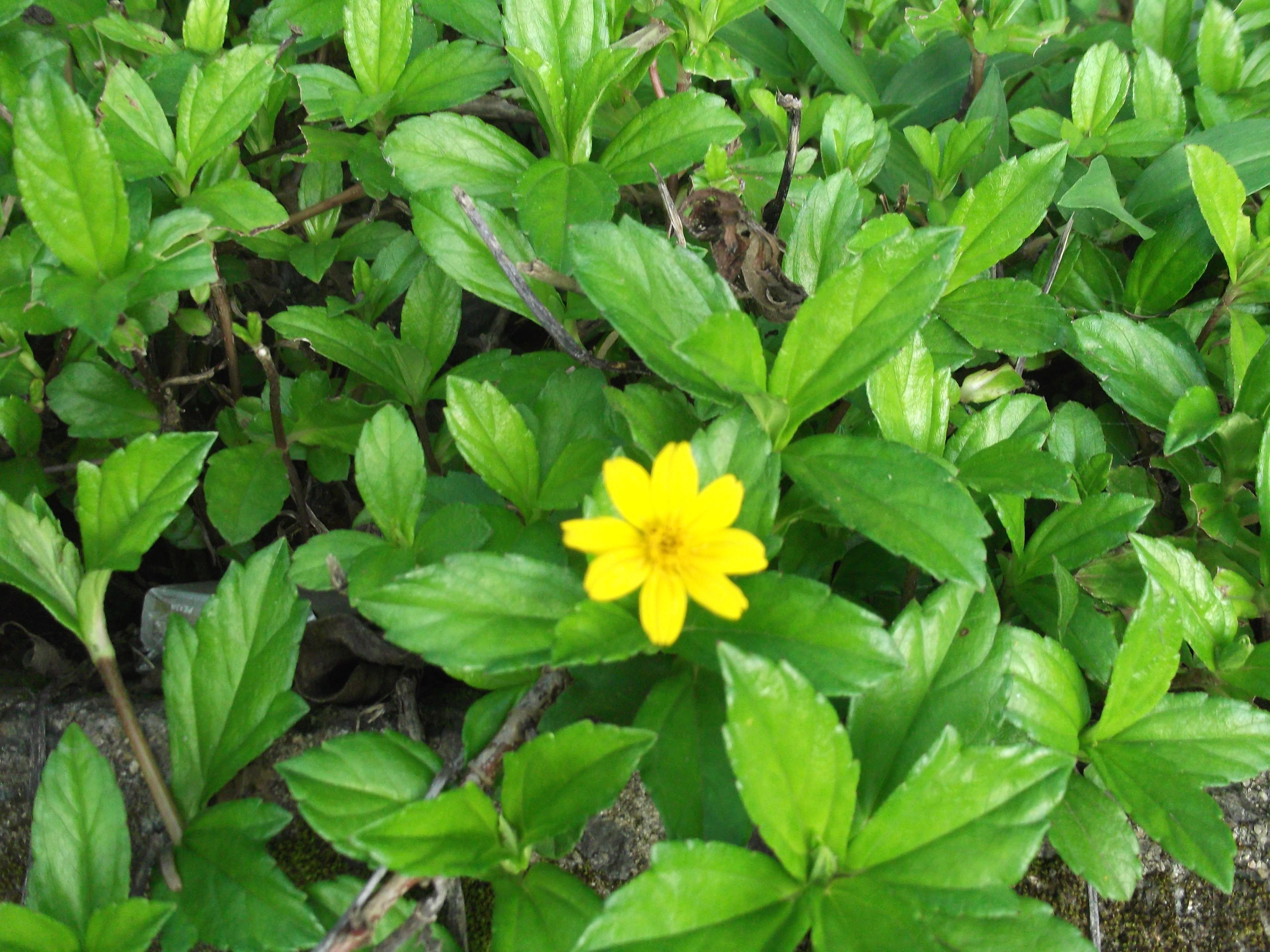 Creeping daisy,flexible trailing stems,golden yellow flowers.